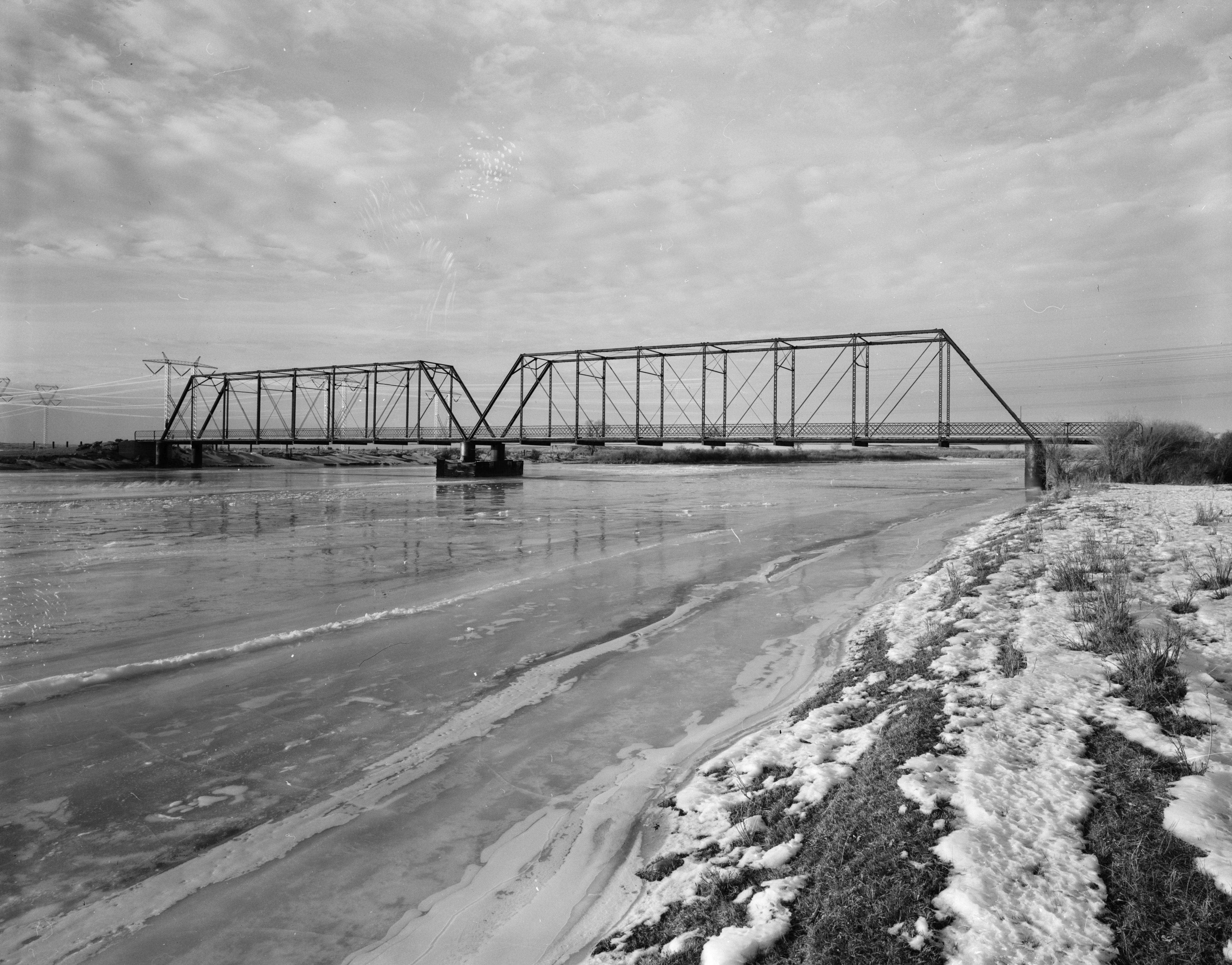 Northern side of the ETR Big Island Bridge, which carries County Road CN4-4 over the Green River near the city of Green River in Sweetwater County, Wyoming, United States. Built in 1909, this Pratt through truss bridge — the longest such bridge statewide — is listed on the National Register of Historic Places.